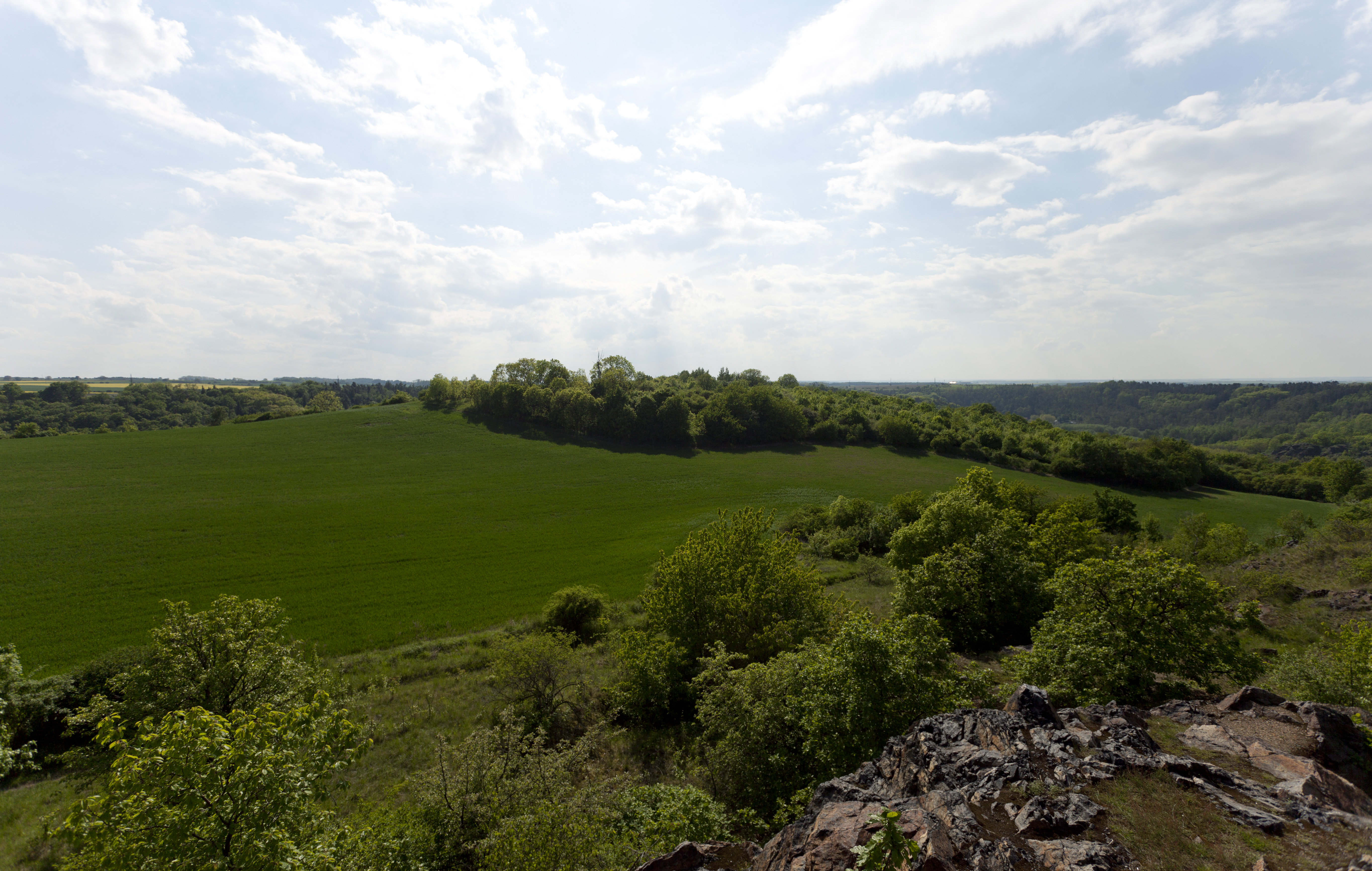 Fort Minice (view from the east) is located above the village of Minice near Kralupy town. It was inhabited at the time of Hallstatt and after less than 70 years disappeared in a fire. Archaeological research has confirmed the importance of this settlement.